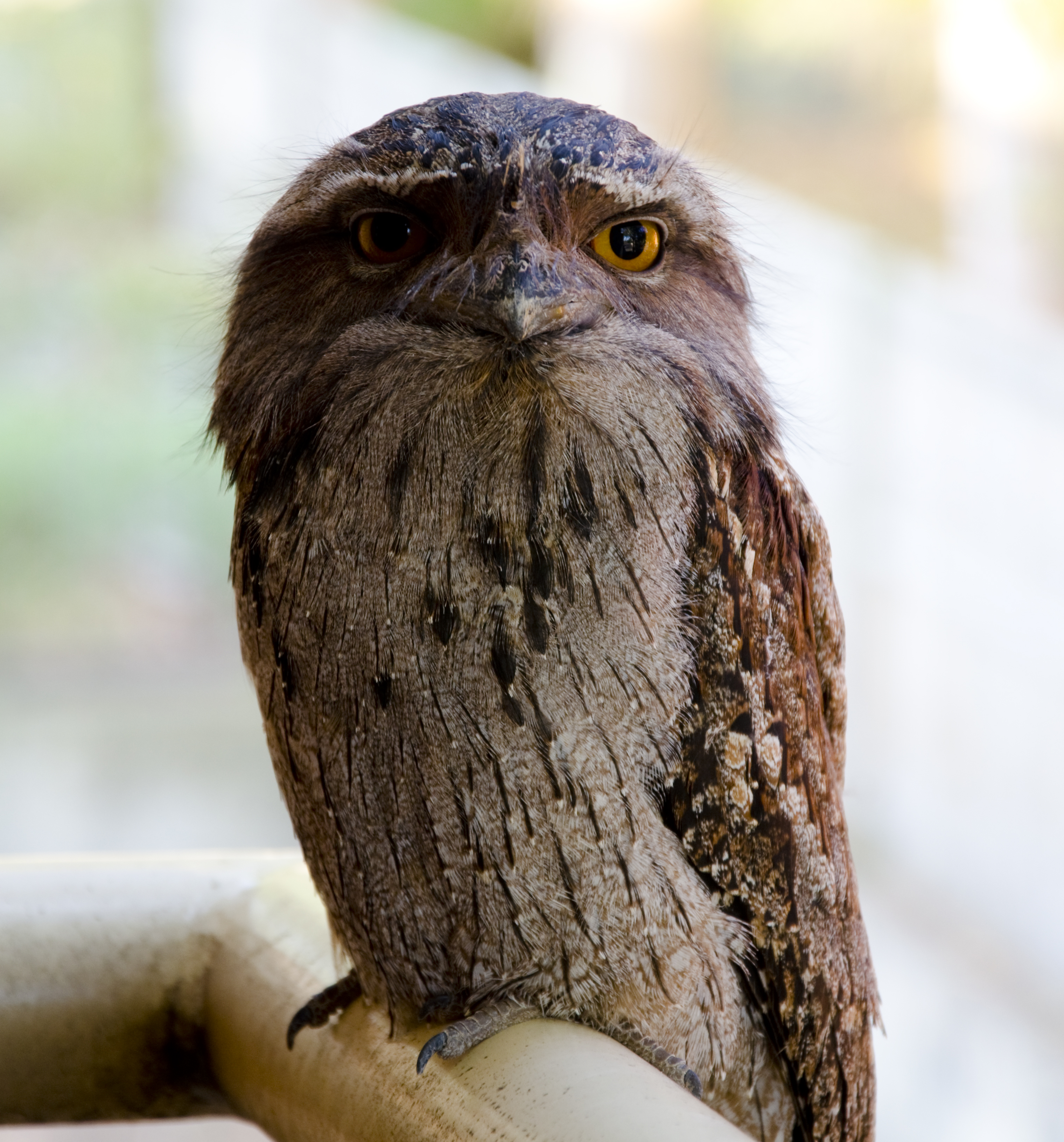 A Tawny Frogmouth in West Ryde, Sydney, New South Wales. It is perching on a balcony rail.